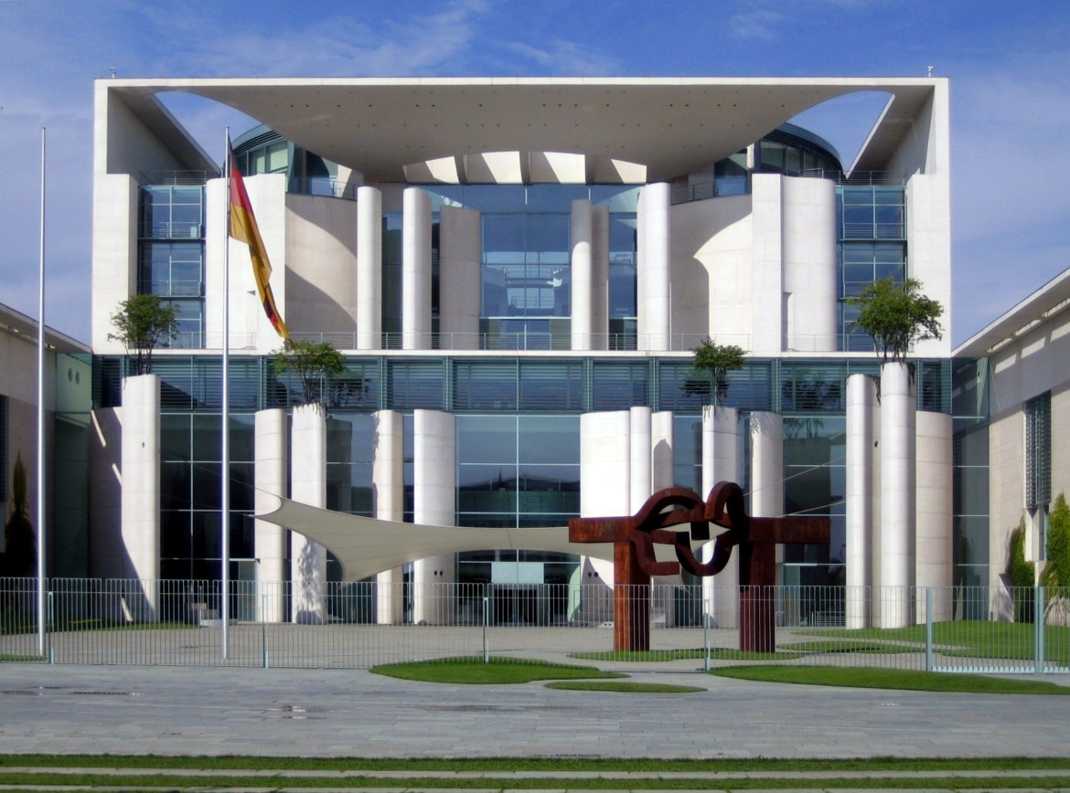 German Federal Chancellery, Berlin. View from the east of the main entrance.